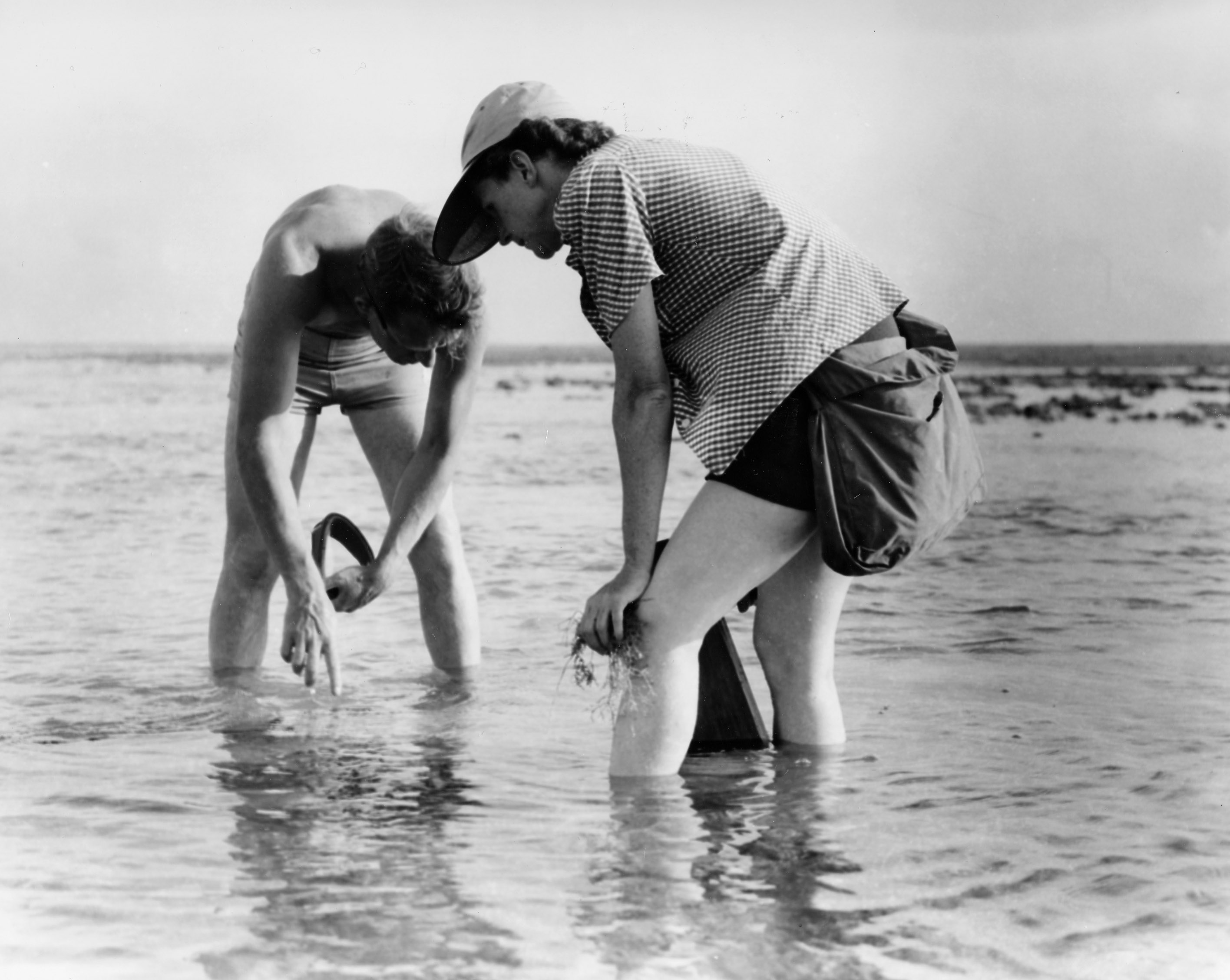 Rachel Carson conducts Marine Biology Research with Bob Hines — in the Atlantic (1952).